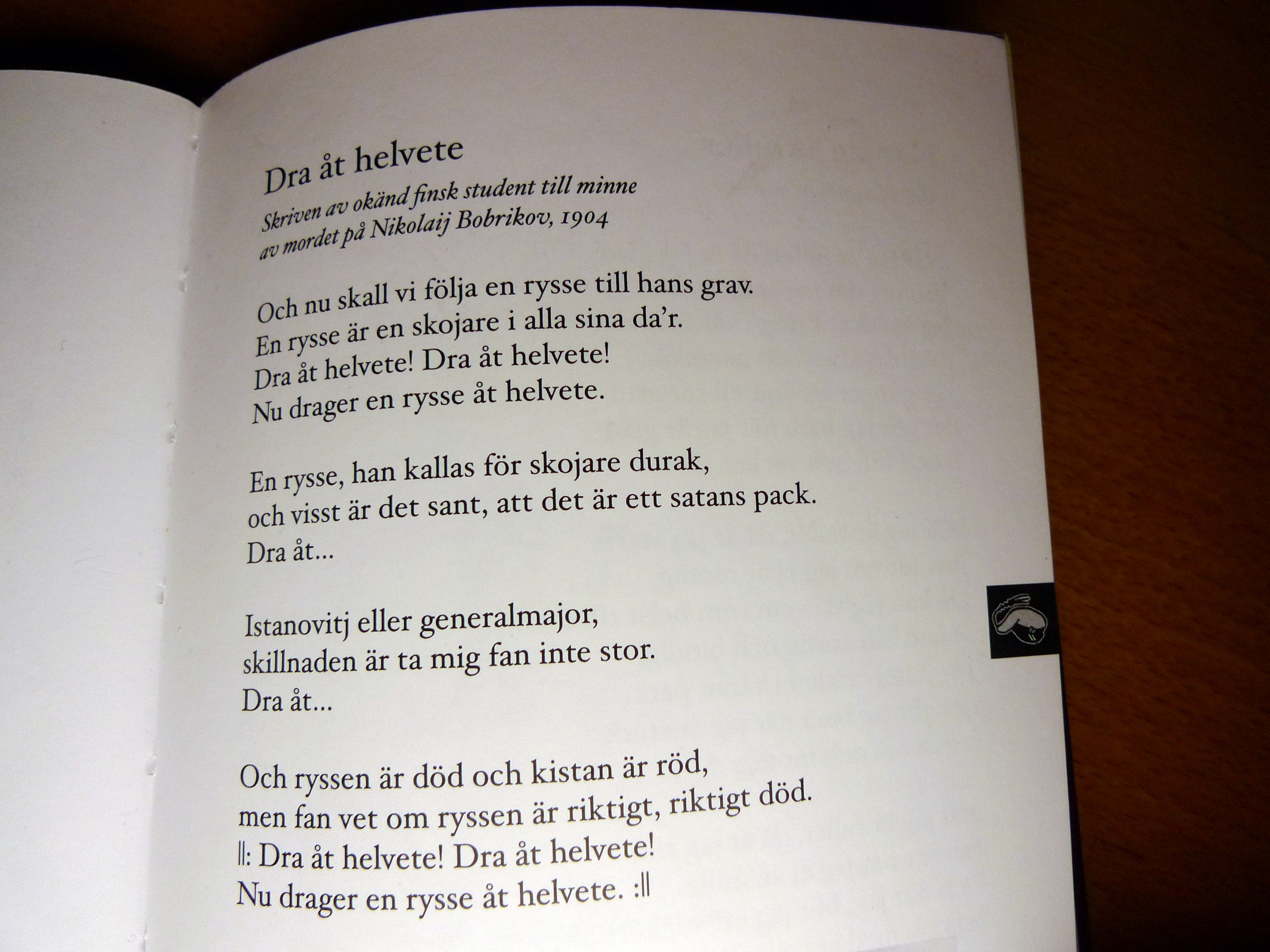 Example of a song with noticeable Anti-Russian sentiment in a KTH songbook from 2007, that was given to newly enrolled students by the Mechanical Engineering students' association Maskinsektionen, a part of THS. Composed in 1904 by an anonymous student in Finland, therefore it's in the public domain. English translation: - Go to Hell - Written by an unknown Finnish student in memory of the murder of Nikolai Bobrikov, 1904. And now we shall follow a Russian to his grave. A Russian is a trickster in all his days. Go to Hell! Go to Hell! A Russian is going to Hell now. A Russian, he's called a trickster imbecile, And it sure is true, they're the devil's vermin. Go to ... Istanovich or Major General, The difference is not damn big. Go to ... And the Russian is dead and the coffin is red, But the devil knows if the Russian is really, really dead. Go to Hell! Go to Hell! A Russian is going to Hell now.